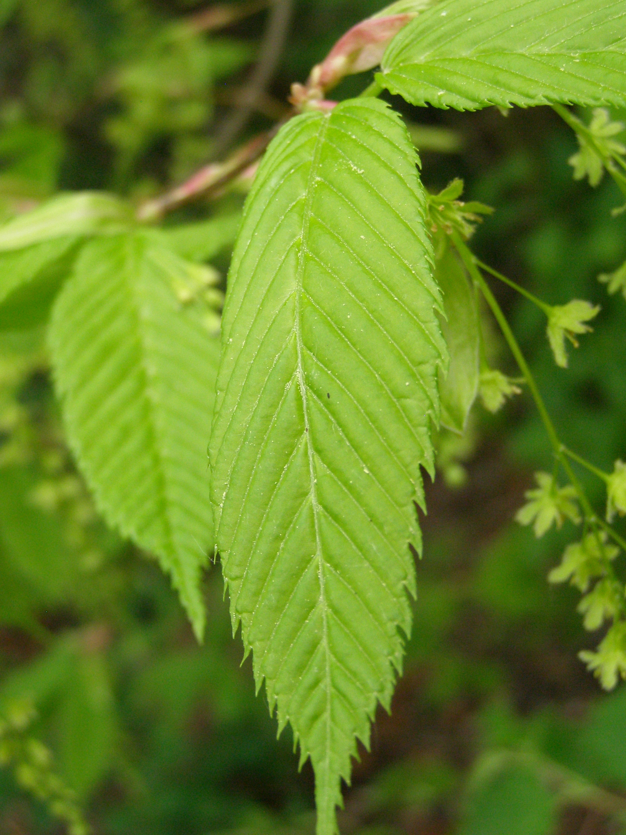 Kórnik - Arboretum - Hornbeam Maple (Acer carpinifolium)